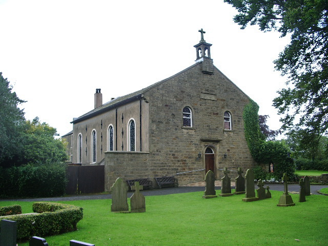 St Francis Church, Hill Chapel